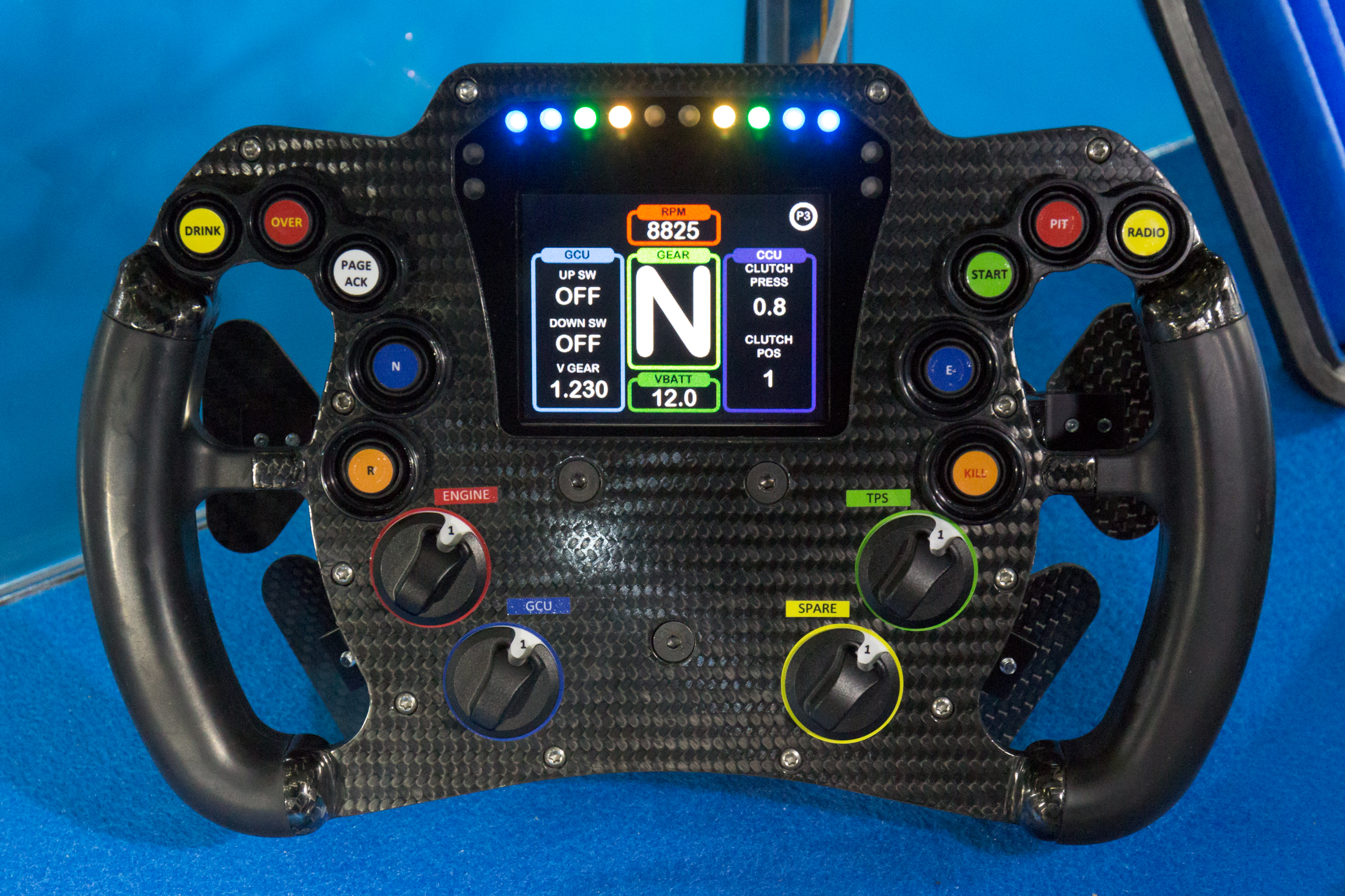 Tokyo Auto Salon 2015: Cosworth Super Formula steering wheel; Dallara SF14's electronic system is supplied by Cosworth Electronics.